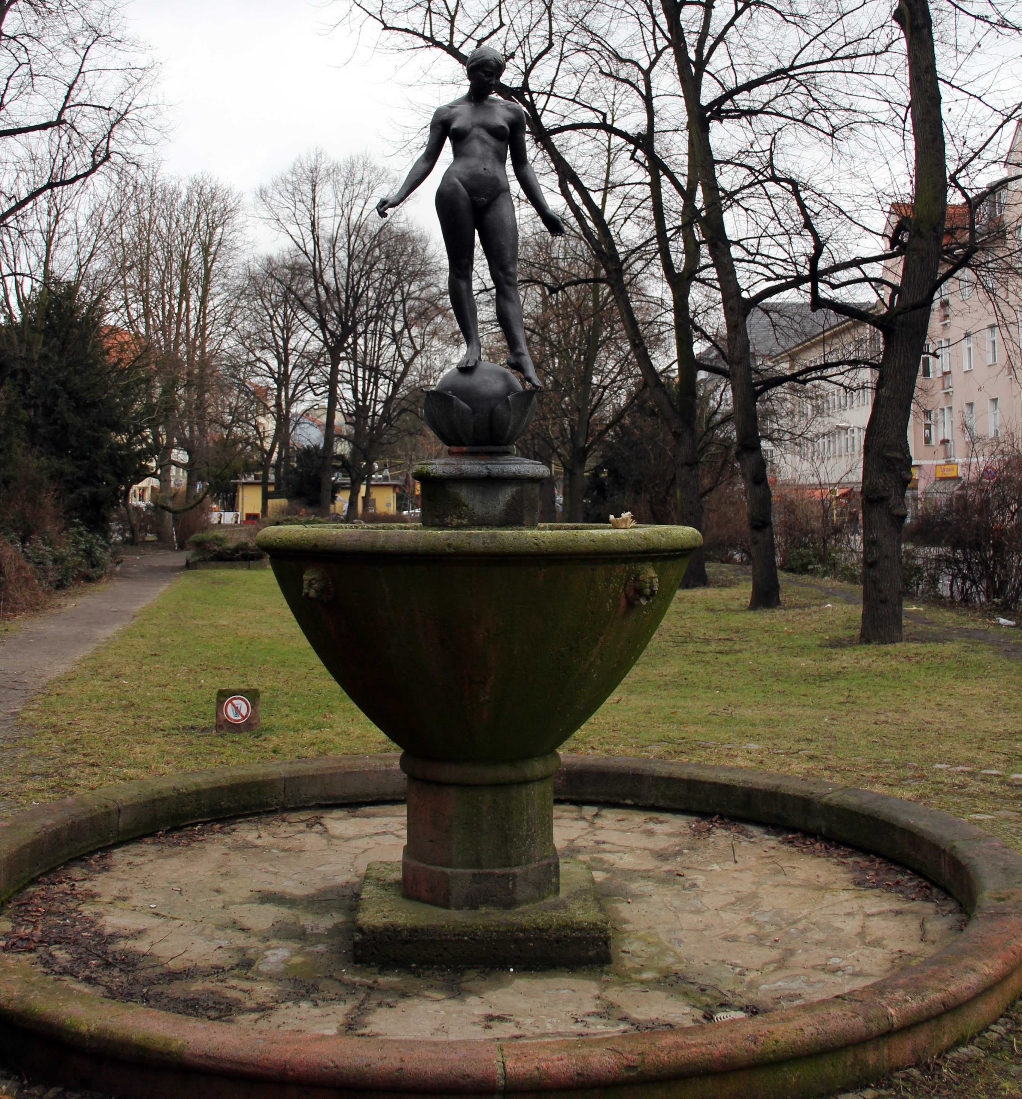 Fountain, "Eva-Brunnen" by Wolfgang Geuter, 1987 (1927), Alt-Tempelhof 31, Berlin-Tempelhof, Germany